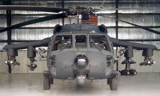 A MH-60L DAP (Direct Air Penetrator) helicopter of the 160th Special Operations Aviation Regiment (SOAR). The DAP is a MH-60L Black Hawk which has been configured to act as a gunship. A range of ordnance can be fitted to the DAP's various hardpoints. This bird is armed with 2xfixed M134 miniguns, 4 AIM-92 stinger air-to-air missiles, 1x M230 30mm chain gun and a M299 launcher holding 2 AGM-114 Hellfire missiles. The bulge under the DAP's chin is a FLIR (Forward Looking Infrared) pod which includes a laser designator for the Hellfires. When so configured, the DAP is unable to carry passengers as all the cabin space is taken up with ammunition.